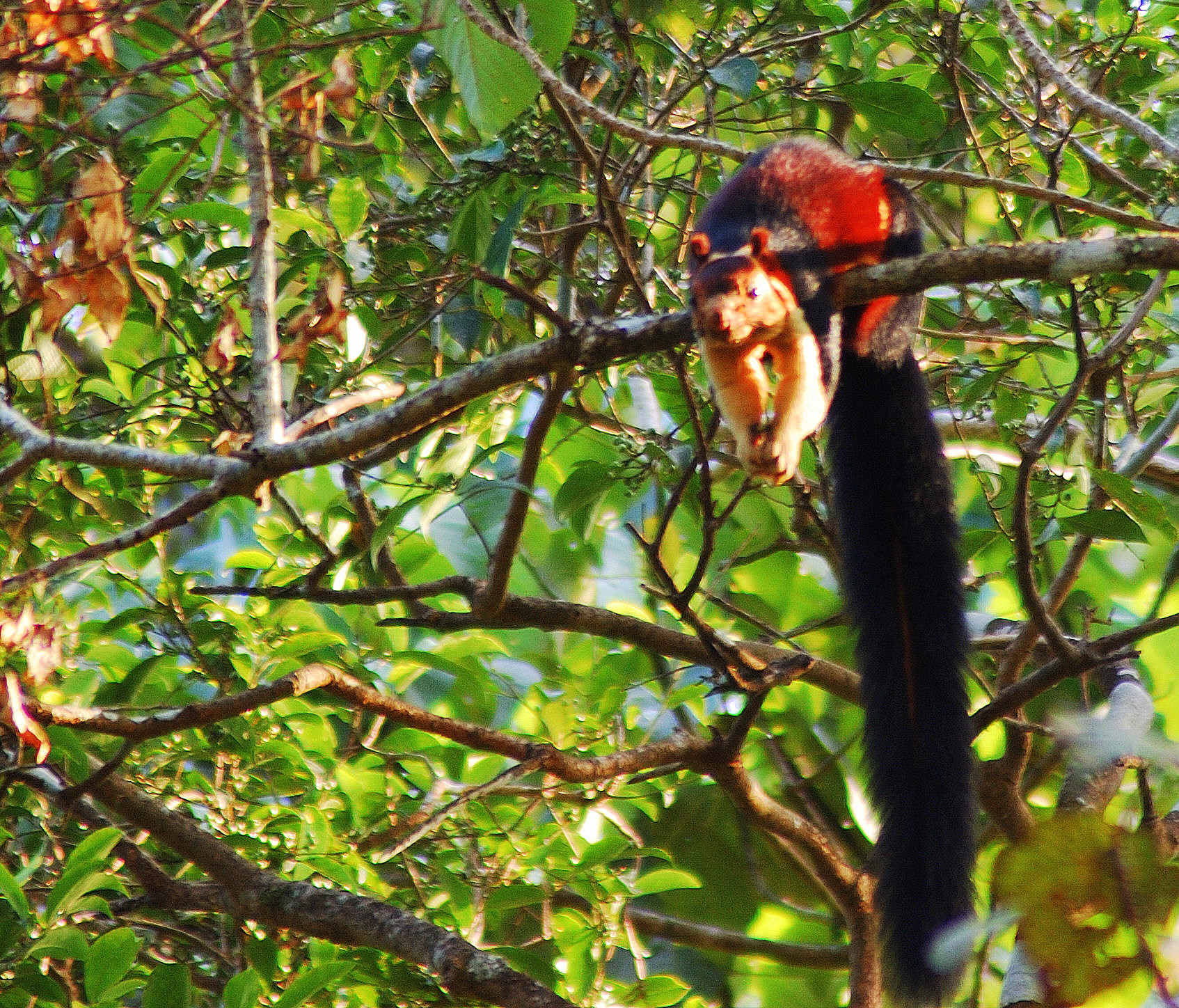 Malabar Giant Squirrel, spotted in Gavi, Kerala, India